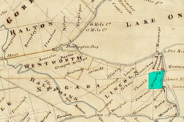 Locator Map of Stamford Township